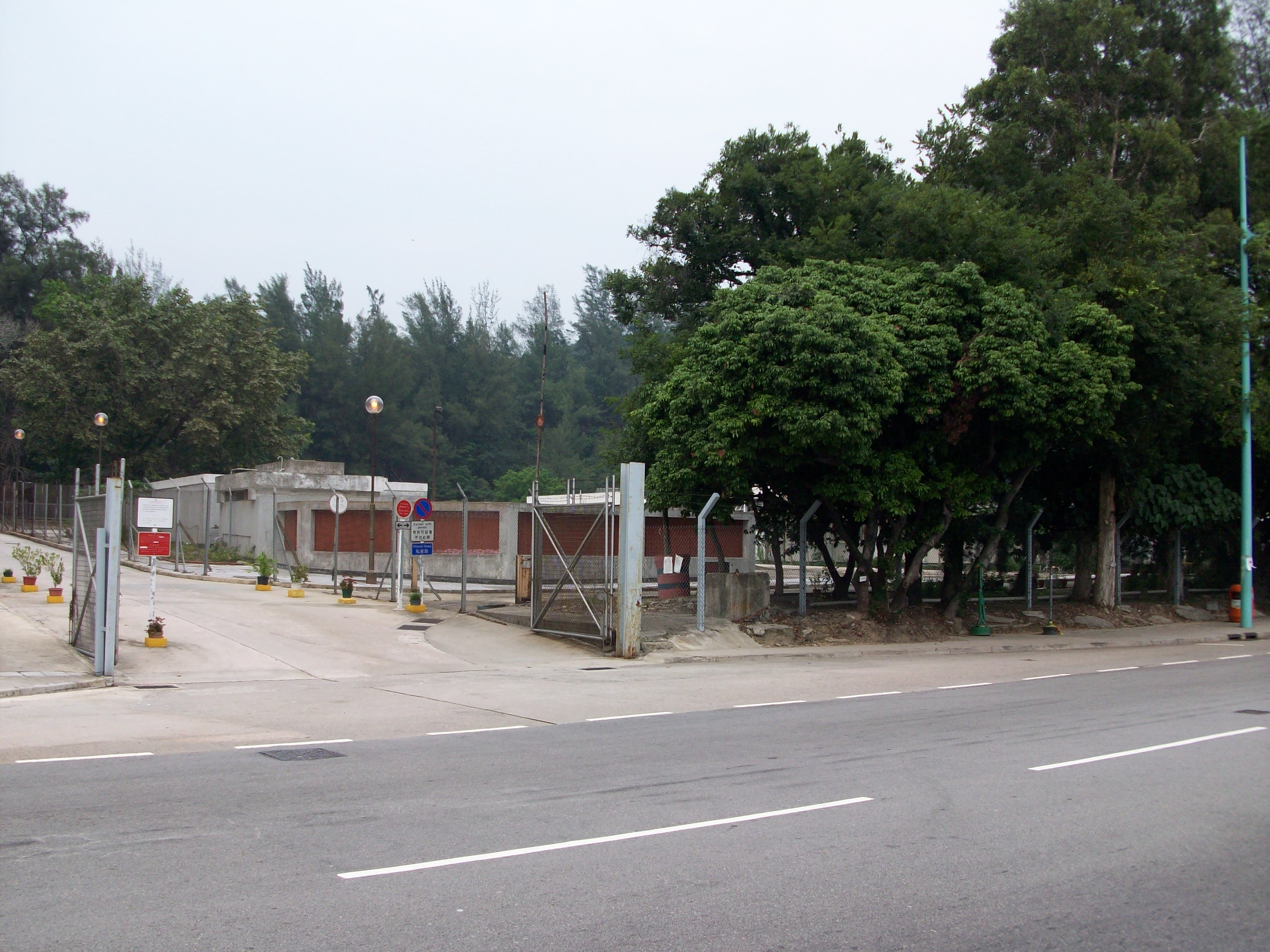 Entrance to Perowne Barracks opposite Gordon Hard.